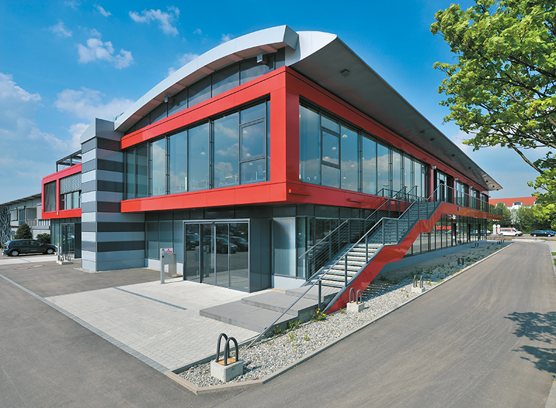 Headquarters of the Carl Stahl company group in Süßen